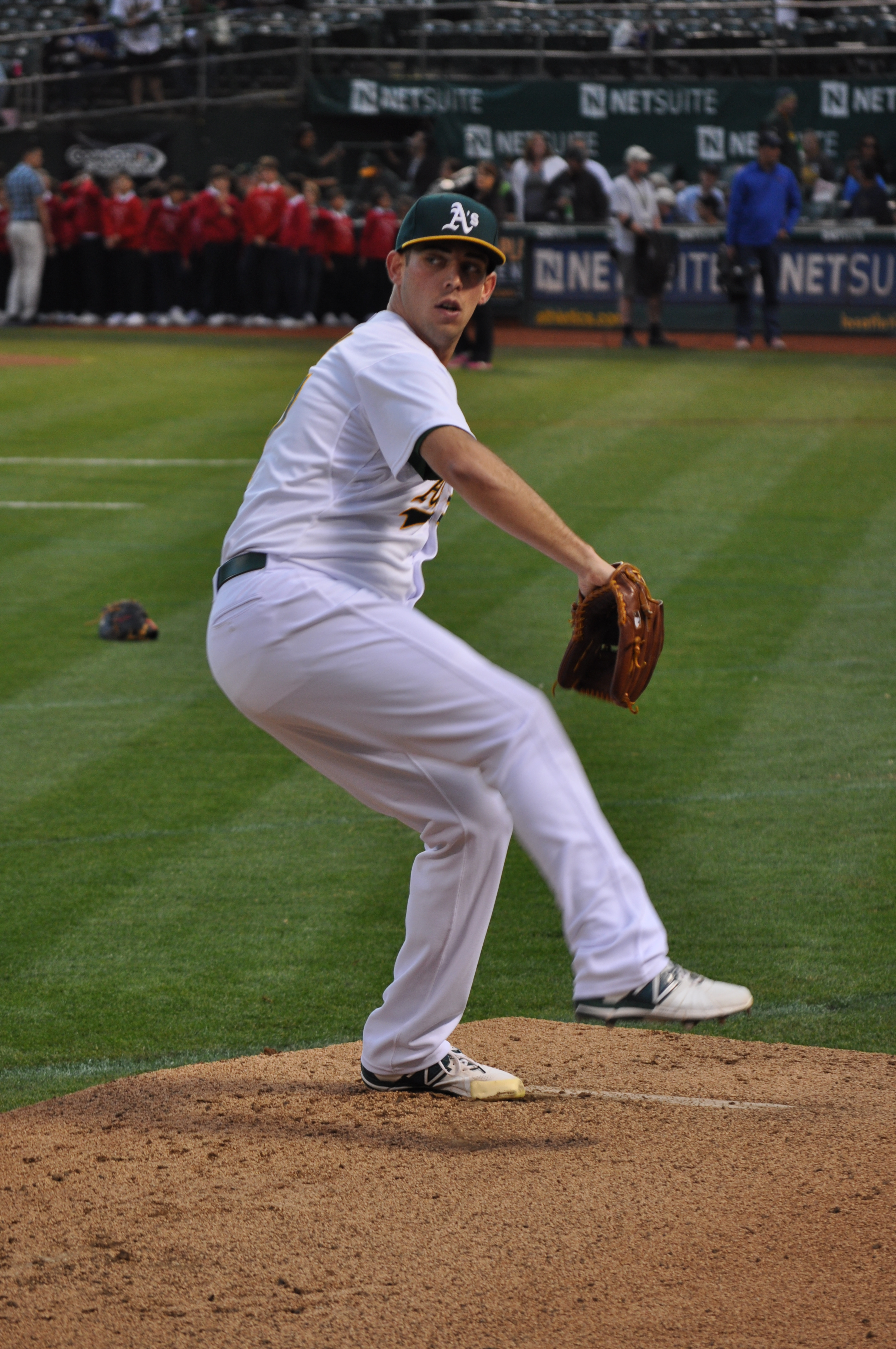 Nolin warms up for his 9-22-15 start against Texas.